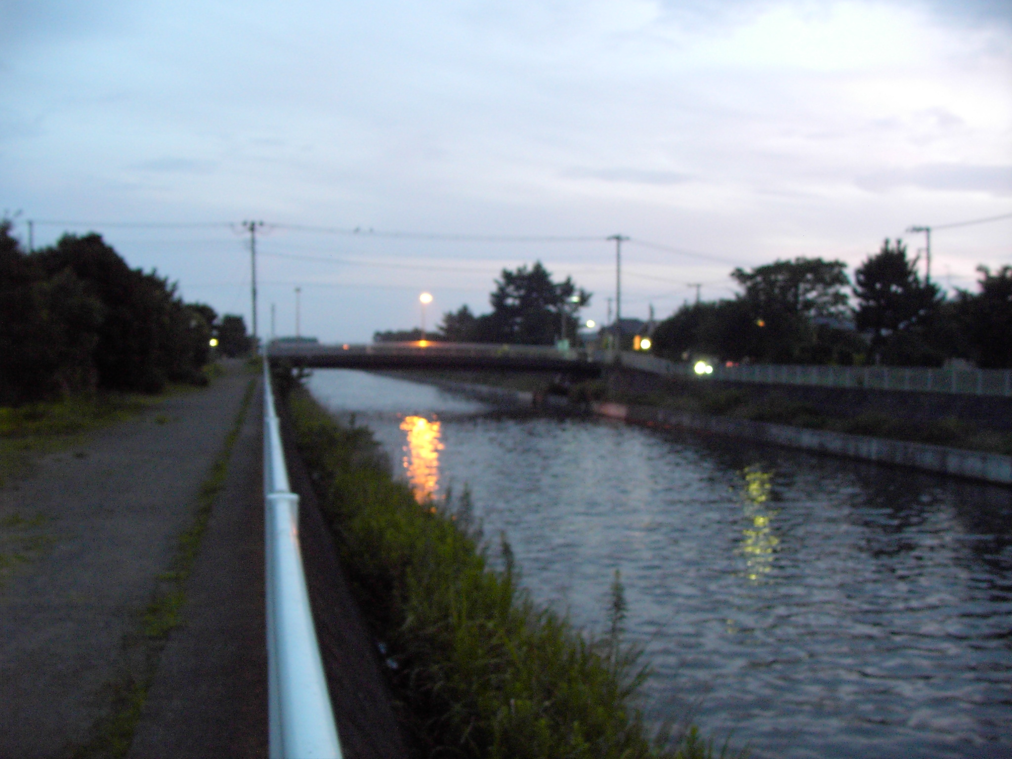 I photograph it in the vicinity of Hikiji River product bridge.(Yahoo! Translation use) 引地川作橋付近で撮影。